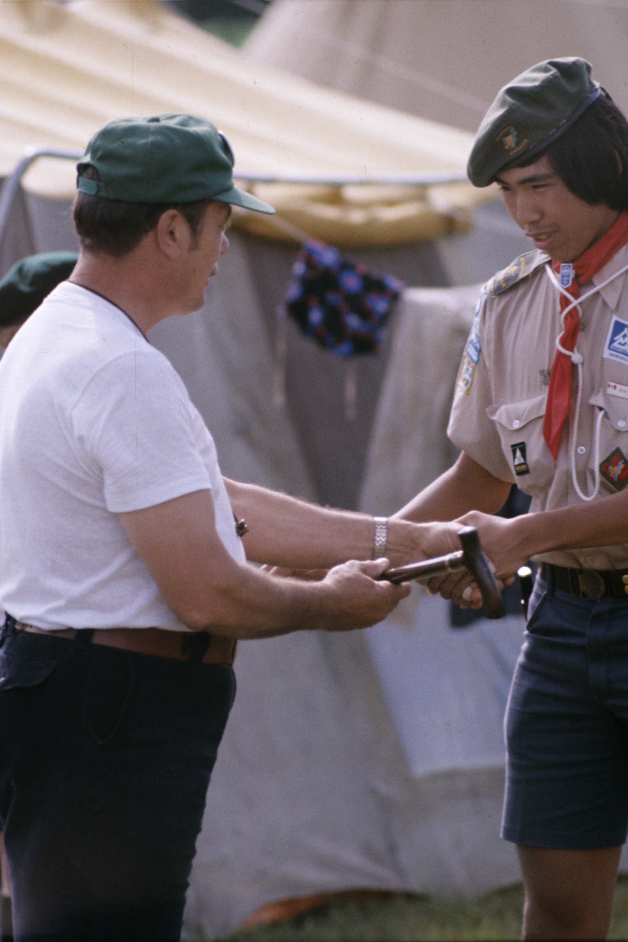 Scouts Canada, Toronto contingent to the 4th Pentathlon Jamboree Fredericton New Brunswick. User:WayneRay and Harry Gatley, Quartermasters for the Jamboree.